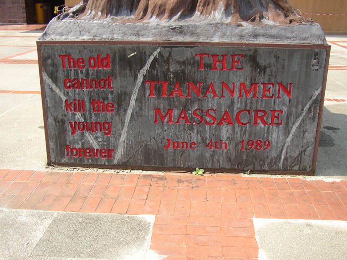 Originally from zh.wikipedia; description page is/was here.